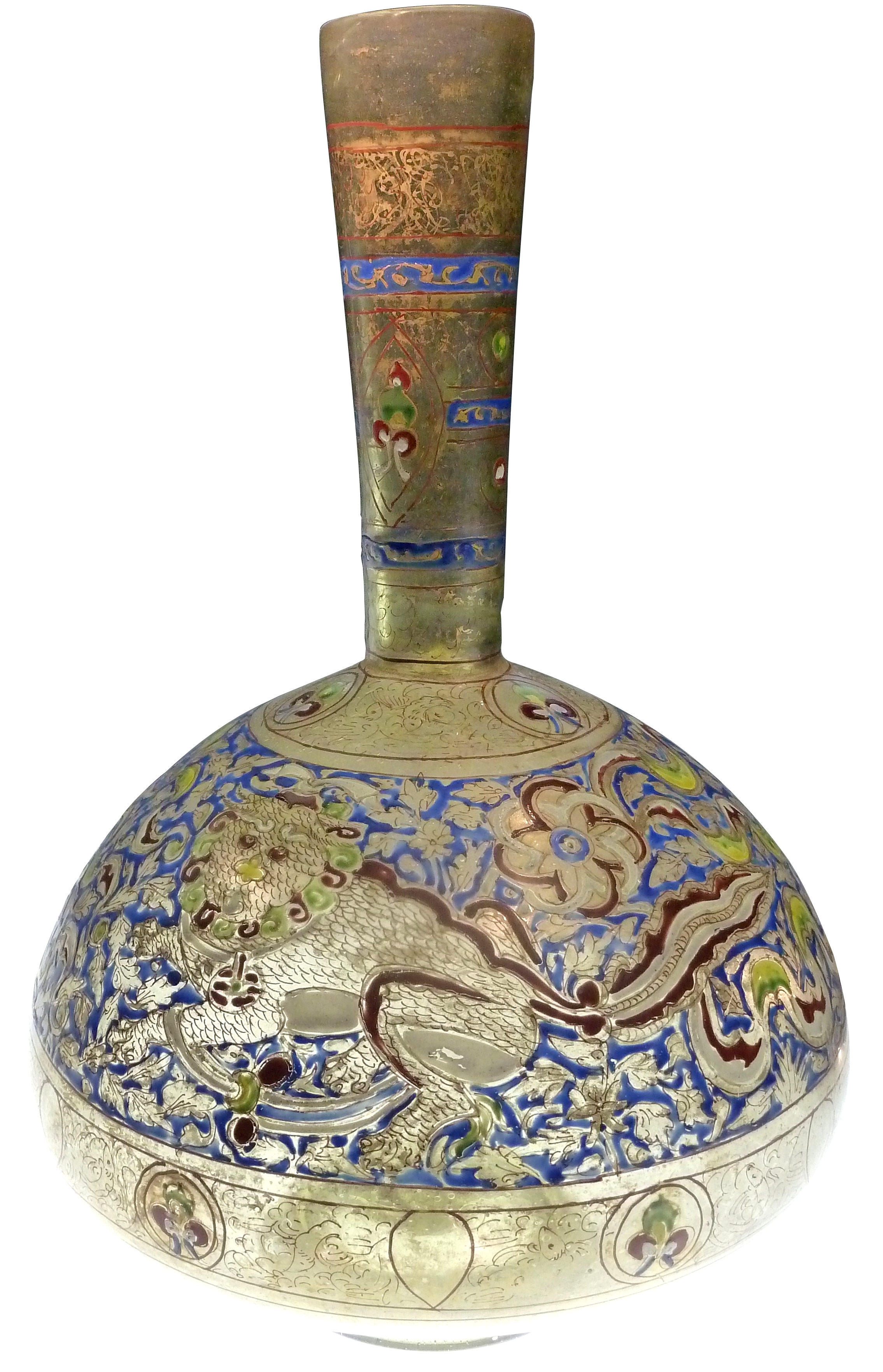 Calouste Gulbenkian Museum